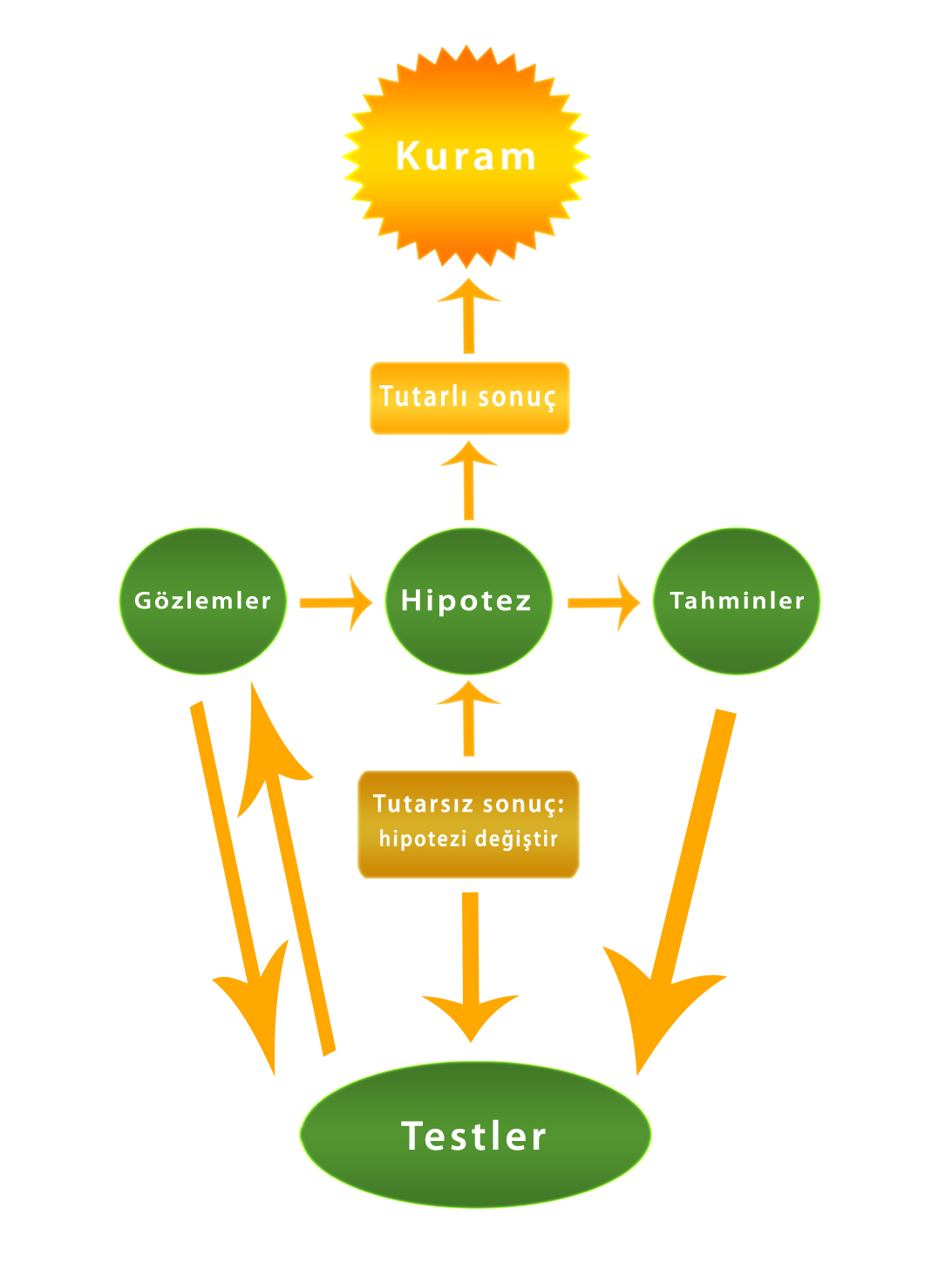 A flow-chart like diagram describing and summarising scientific method, in Turkish... Plausibility of the diagram was based on the diagram here